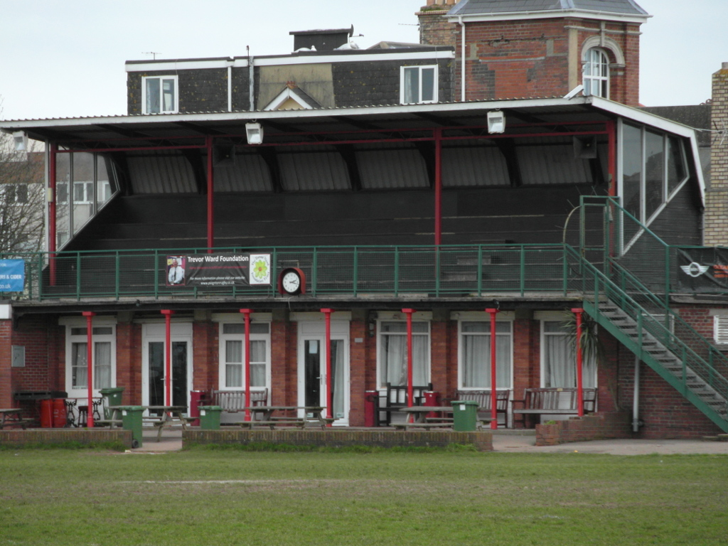 Pictrure of PRFC Clubhouse